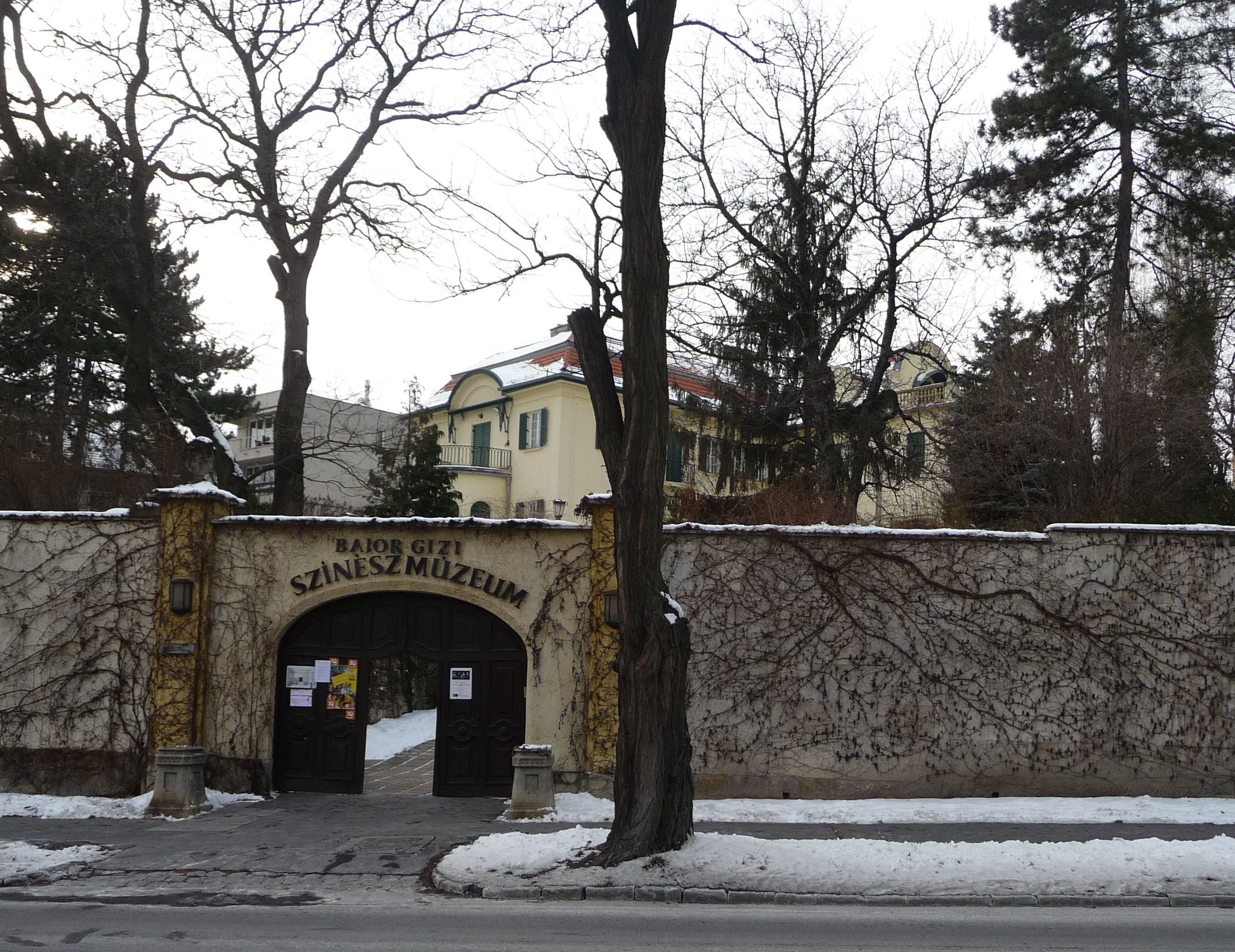 The entrance of Bajor Gizi Actors' Museum.